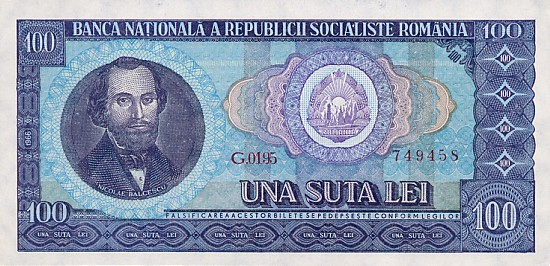 100 Romanian leu from 1966 - obverse